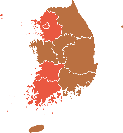 Result map of the 1971 South Korean elections, based on File:PESK2007 RESULT MAP.png. Province borders are reconstructed and may not be accurate.